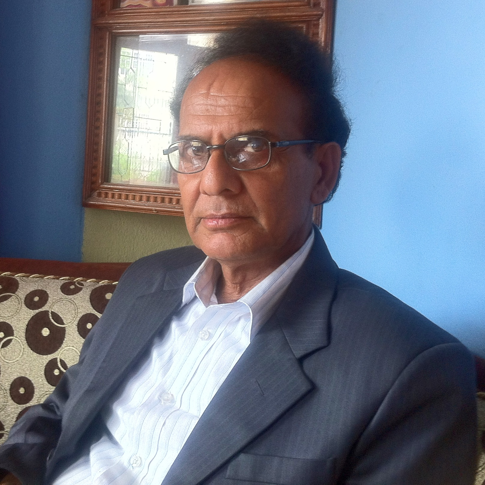 This is picture of Prof. Krishnahari Baral.